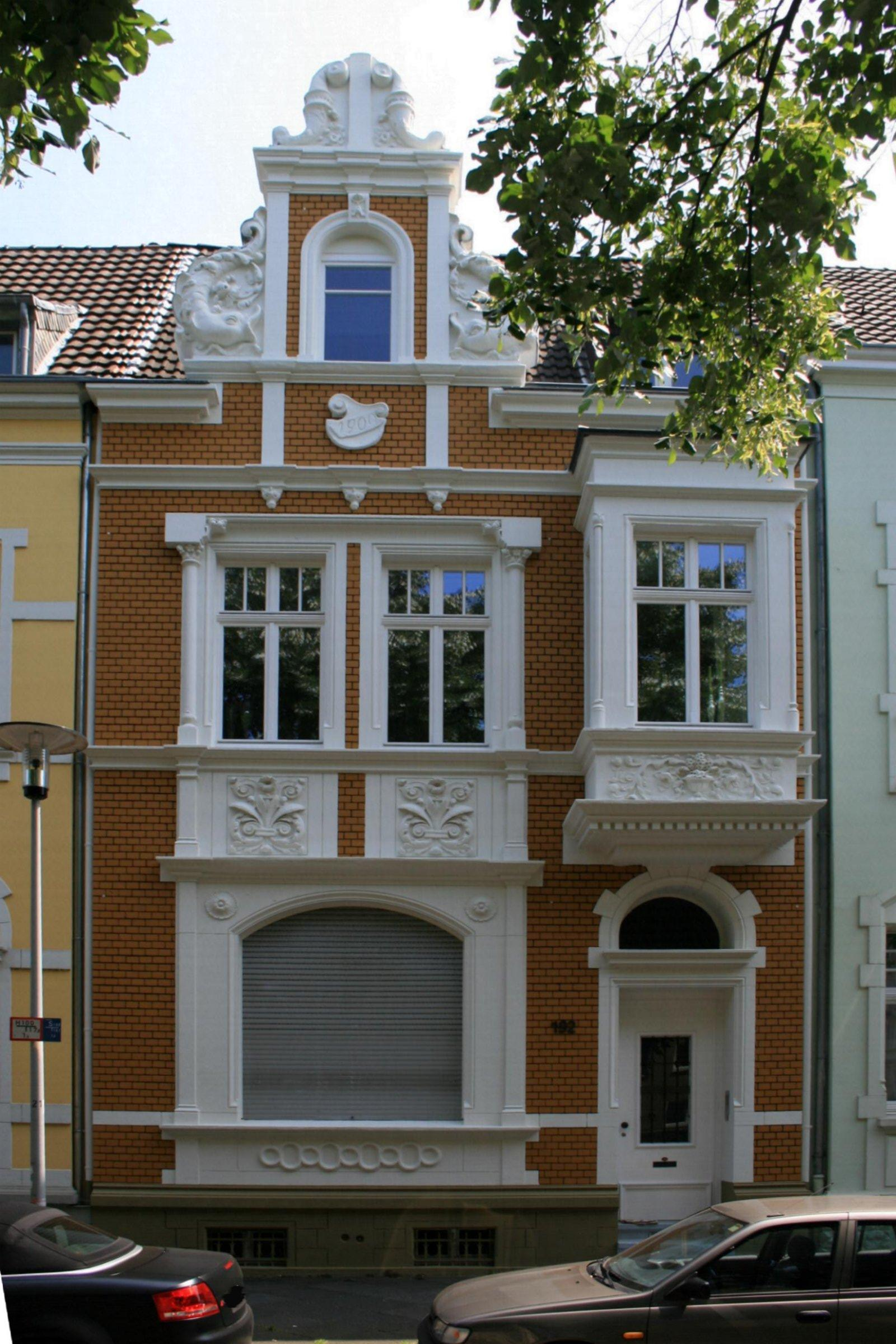 Cultural heritage monument No. B 101 in Mönchengladbach